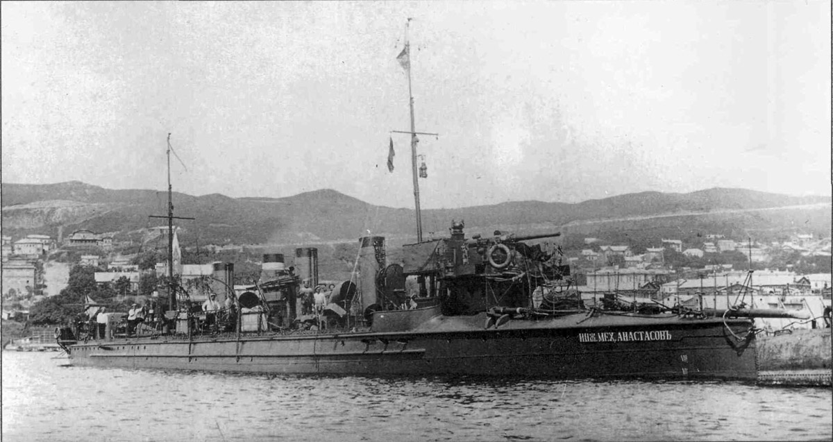 Imperial Russian destroyer Inzhener-mekhanik Anastasov.